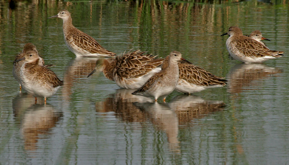 Ruff Philomachus pugnax near Hodal, Faridabad, Haryana, India.